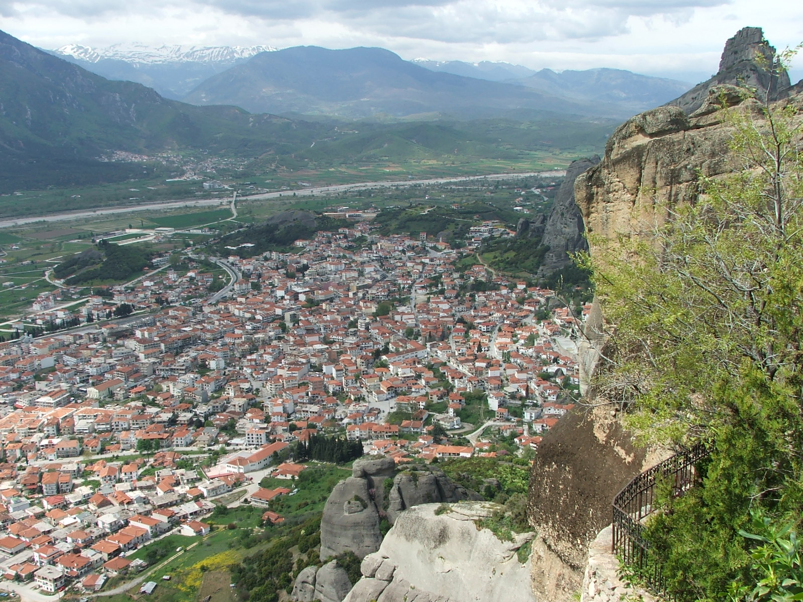 Kalambaka city